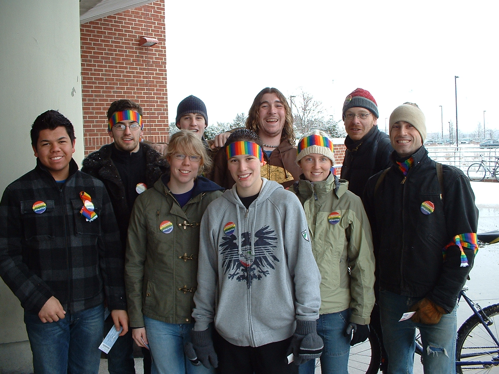 Nine LGBTA student activists at the ticket booth of the Bryce Jordan Center, The Pennsylvania State University, University Park, PA. The rainbow pins contain the phrase "I support student athletes," and the tickets were purchased for an in-progress Lady Lions home basketball game.